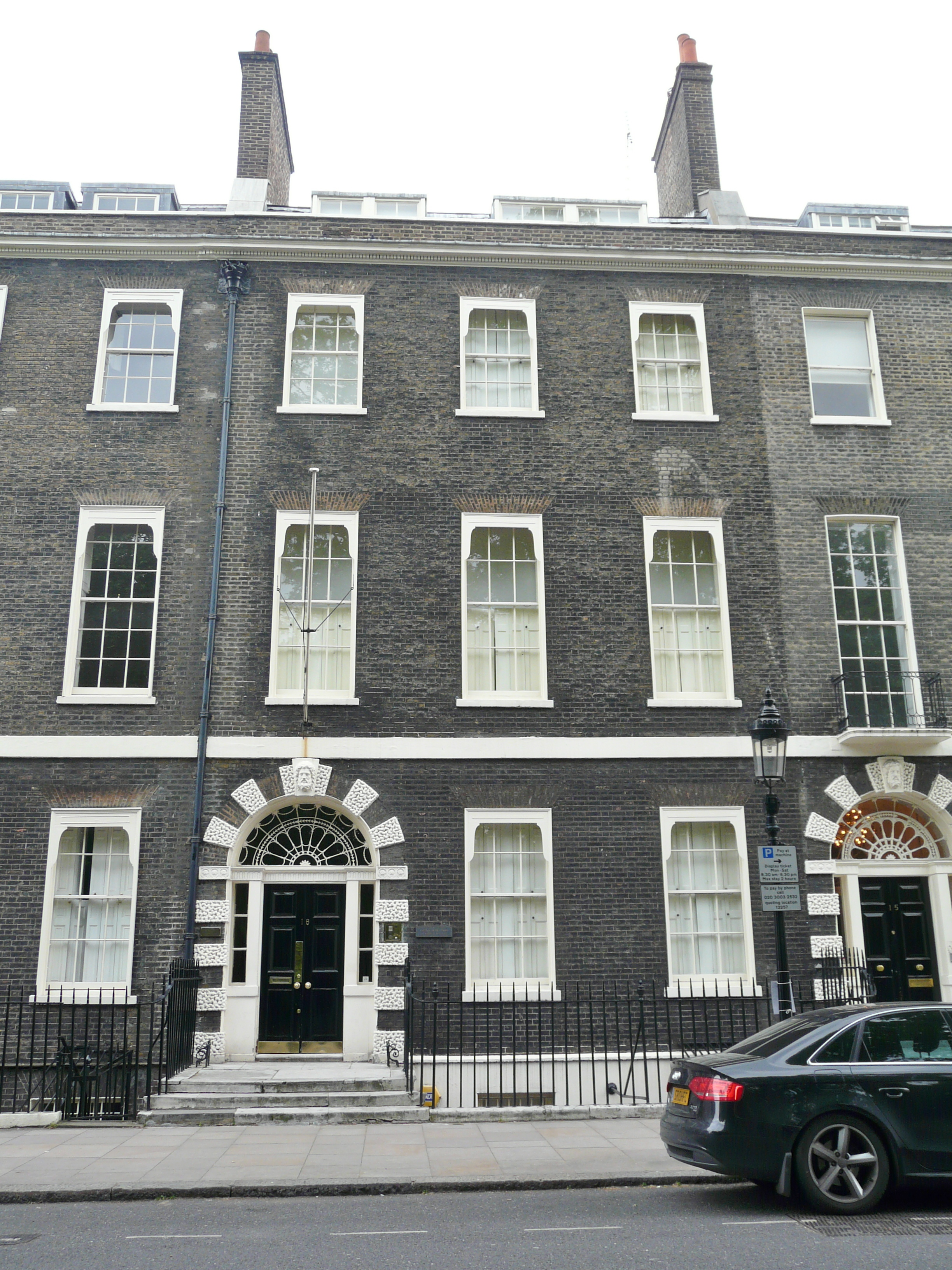 NUMBERS 12-27 AND ATTACHED RAILINGS Wikidata has entry Q17526608 with data related to this building.